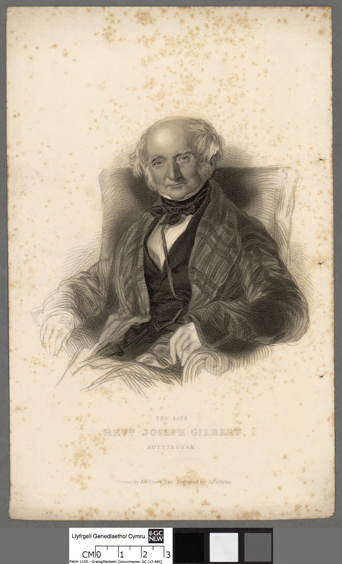 A portrait from the Welsh Portrait Collection at the National Library of Wales. Depicted person: Joseph Gilbert – English Congregational minister